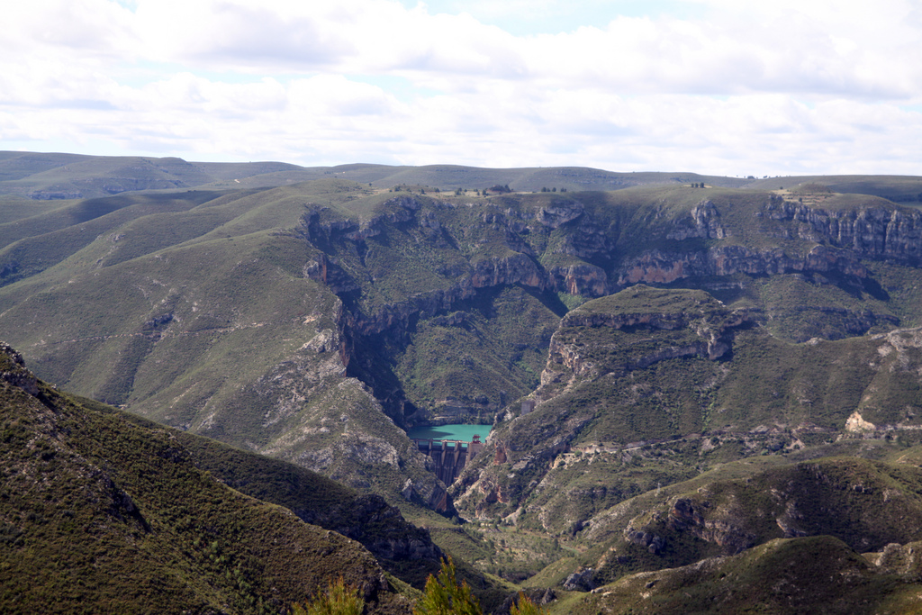 Muela de Cortes y el Caroche. Naranjero Reservoir and Muela de Cortes from Dos aguas Road This is a photography of a Special Area of Conservation in Spain with the ID: ES5233040. Natura2000 entry, EEA entry